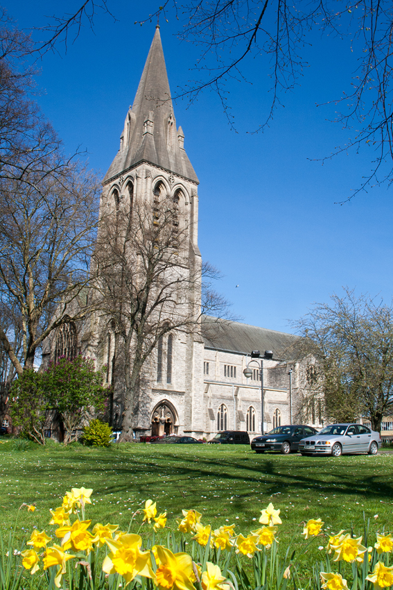 St Mary's parish church, Southampton, Hampshire, seen from the southwest